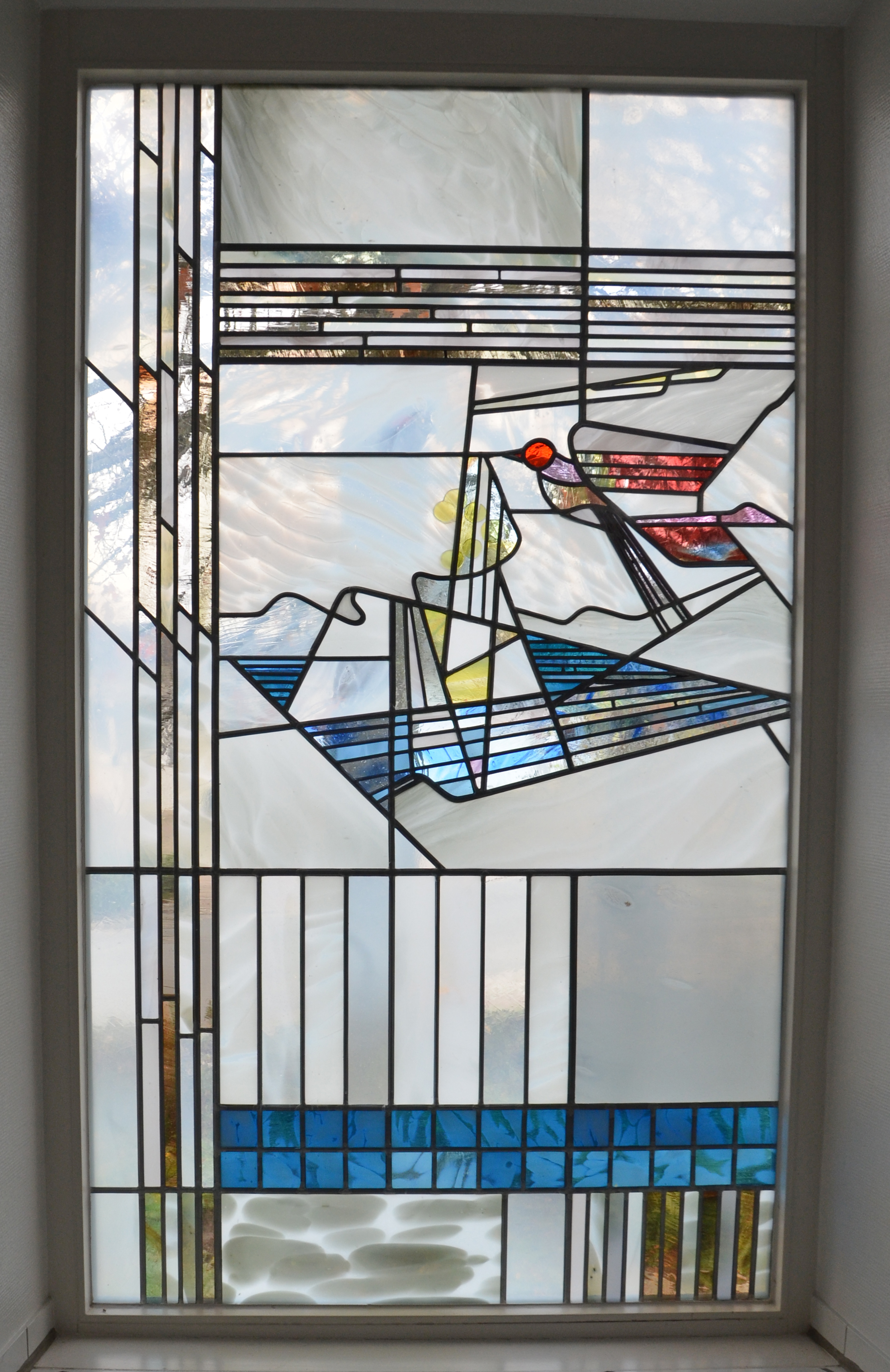 Window